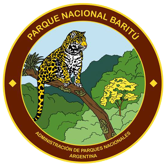 Logo of Argentine Baritú national park, sited in Salta Province.